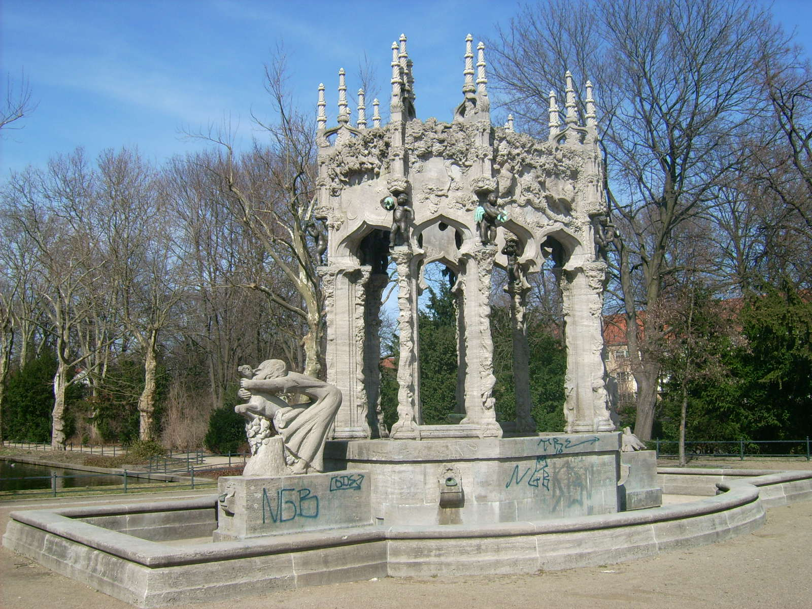 The Schulenburgpark in Berlin-Neukölln, tale fountain